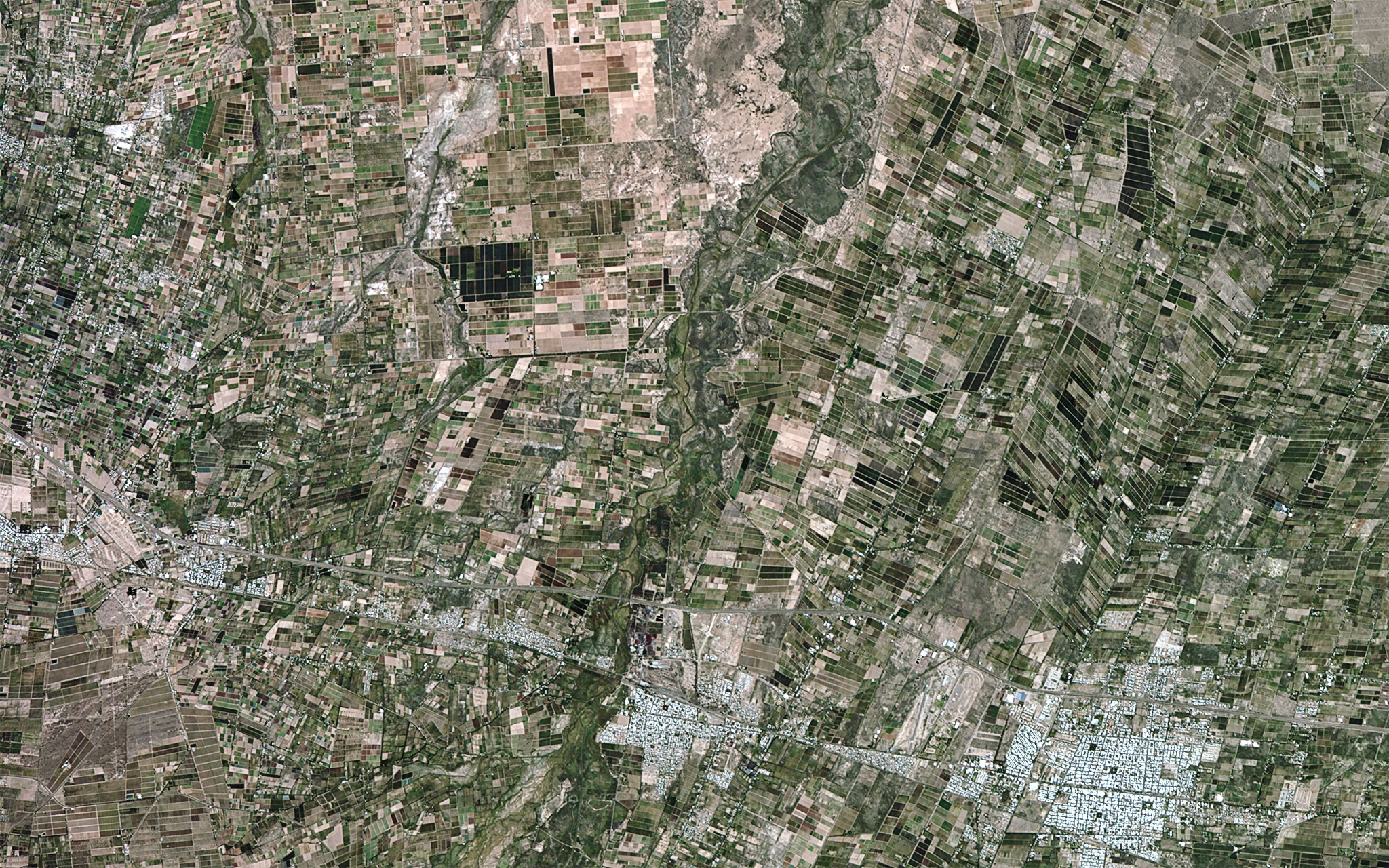 Vineyards between Mendoza and San Martin in Mendoza Province, Argentina, as viewed by Hodoyoshi-1 satellite.